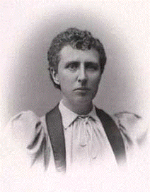 Teacher and composer Elisabeth Boisen (1850-1919